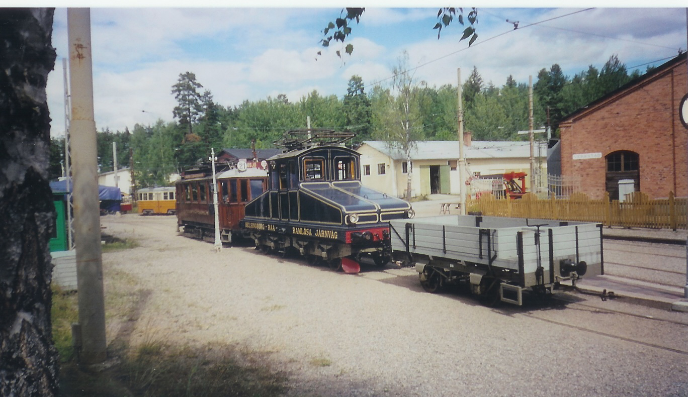 Heritage tramway museum in Malmköping, Sweden